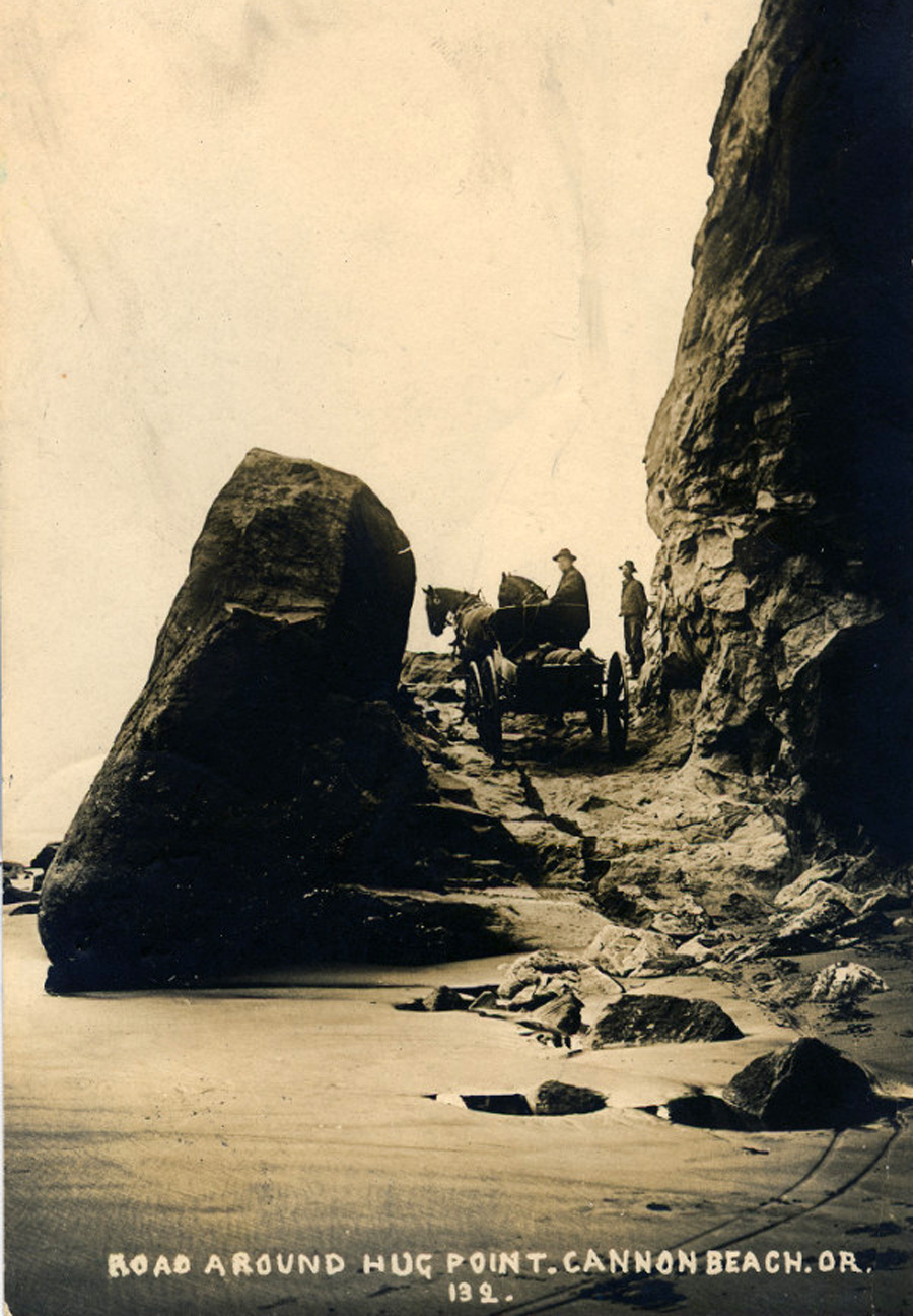 A wagon rounding Hug Point around the turn of the 20th century. The road was carved into the rock by unknown persons so that it would not be necessary to drive wagons and cars out into the surf.